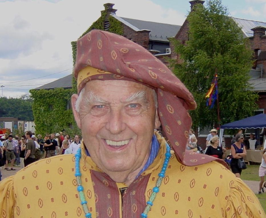 Albert Nordengen, Norwegian politician (Coservative Party). Chaiman of the Oslo Medieval Festival, former mayor of Oslo.